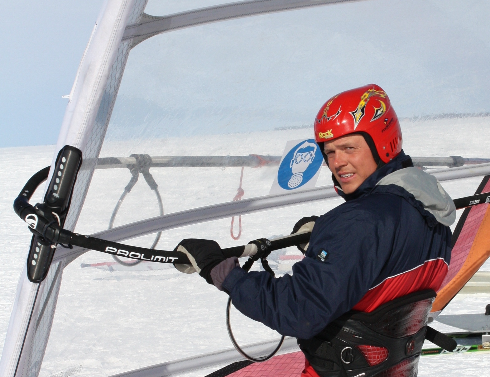 sport